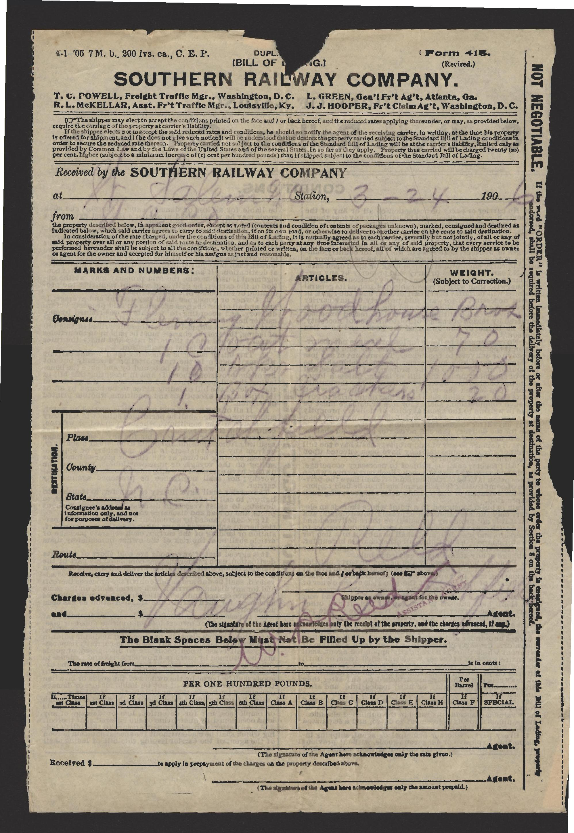 Southern Railway Company Bill of lading - 1906 See also: Image:Bill of Lading - Southern Railway Company back.jpg